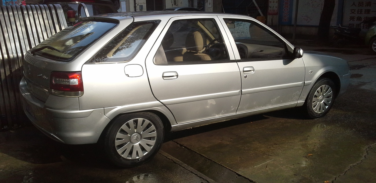 Citroën C-Elysée hatch photographed in Wuhan, Hubei province, China.